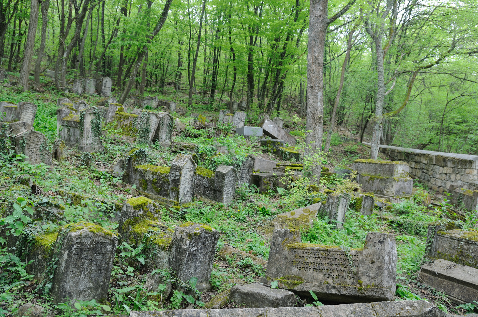 tombstones - Karaite Cementry in Bakhchysarai, Crimea